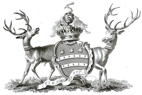 Source: English Peerage,Charles Catton 1790